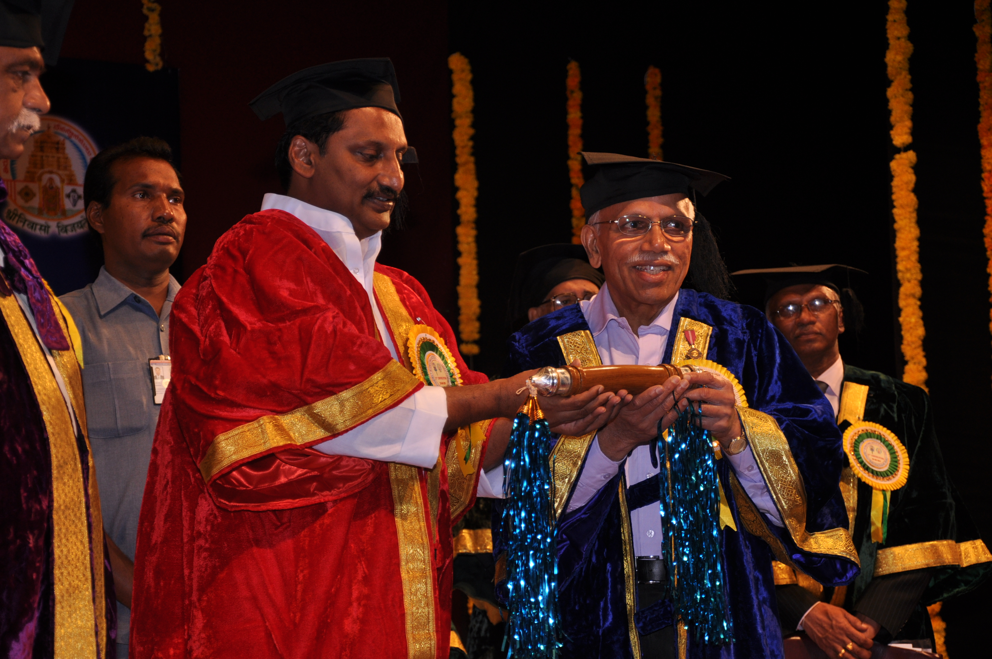 Andhra Chief Minister Kiran Kumar Reddy presenting an honorary doctorate to Belle Monappa Hegde